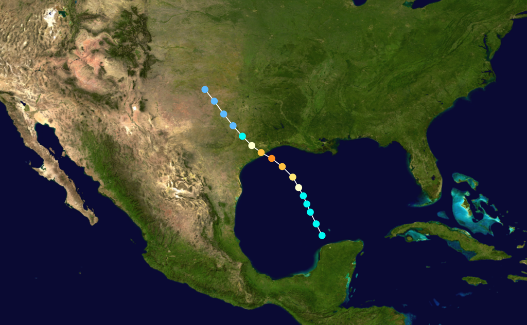 1932 Atlantic hurricane 2 track. Uses the color scheme from the Saffir-Simpson Hurricane Scale.